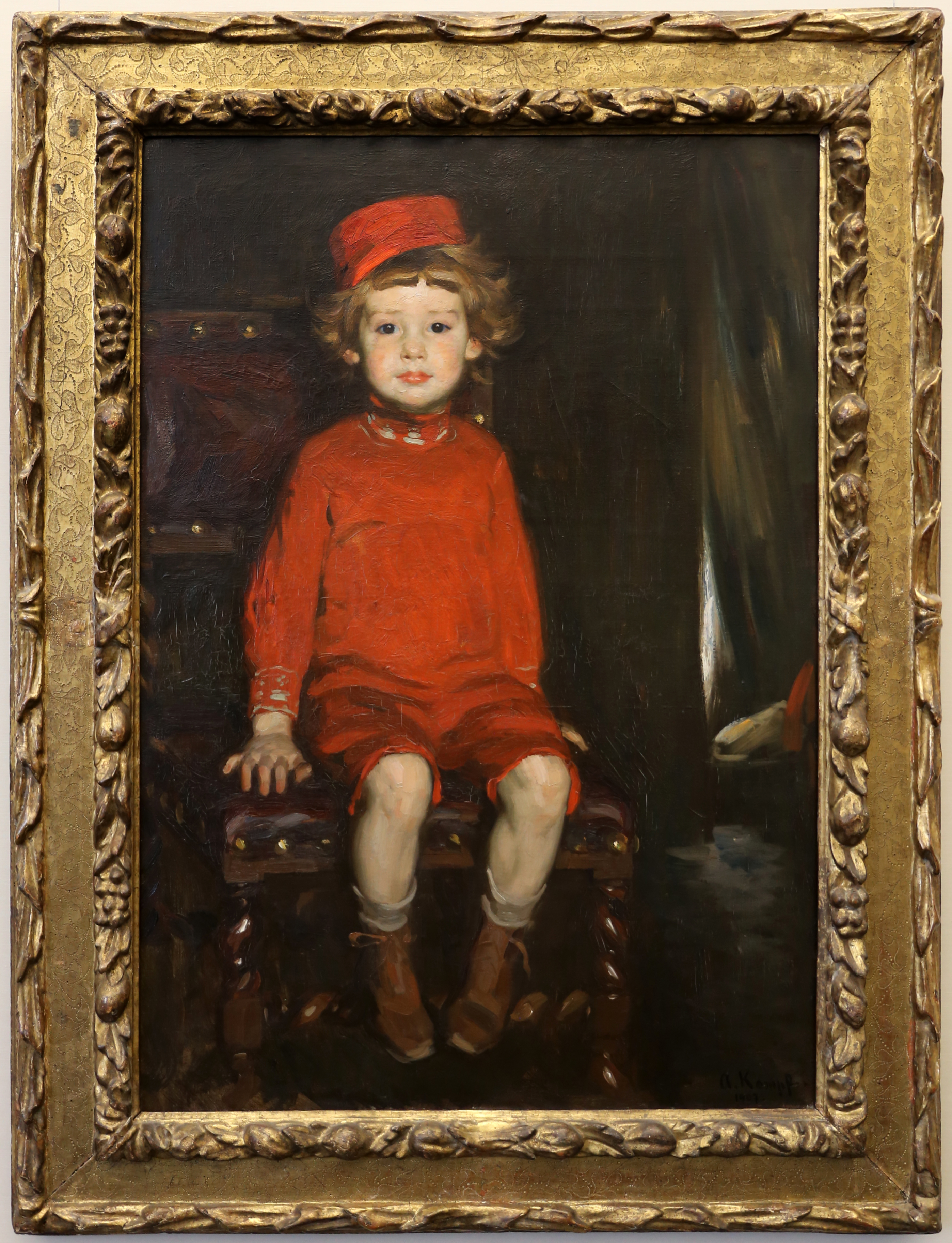 Paintings in the Alte Nationalgalerie